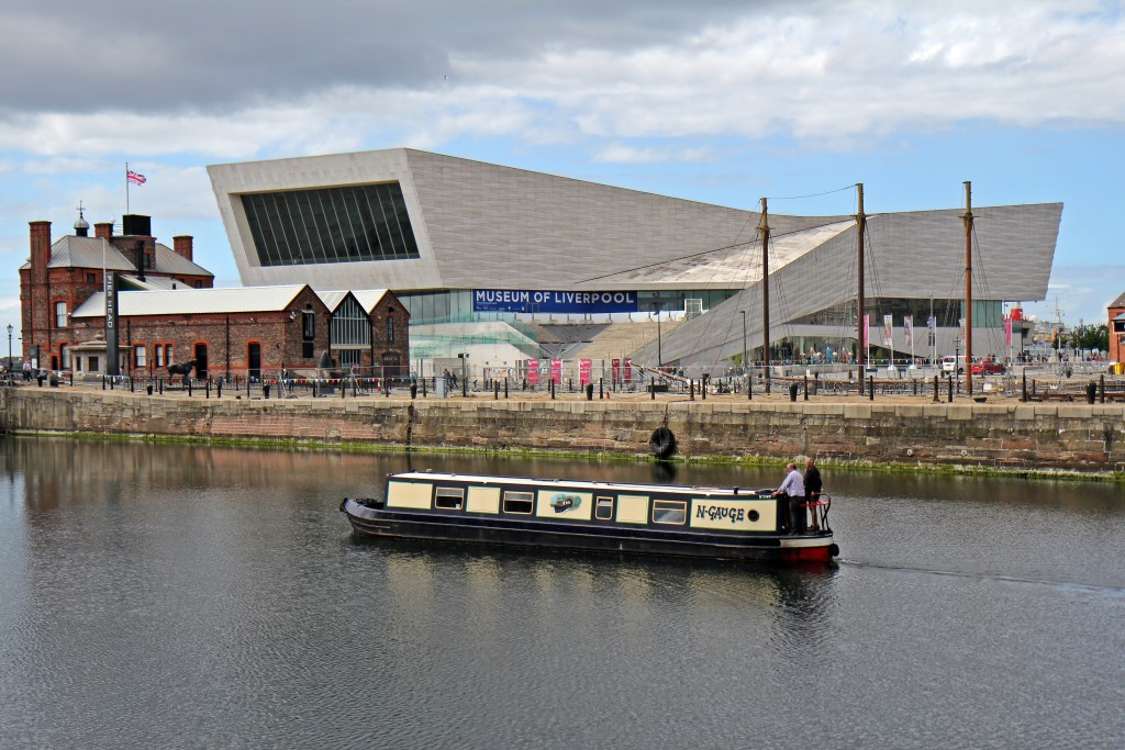 Narrowboat, Canning Half-Tide Dock, Liverpool